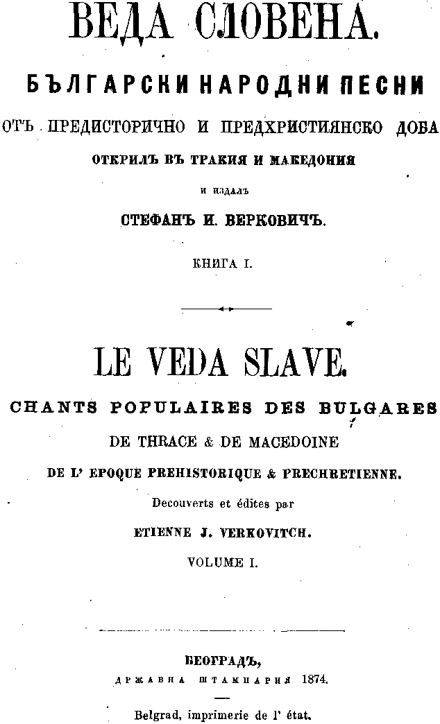 Cover of the first volume of Veda Slovena, issued in 1874 in Belgrade.